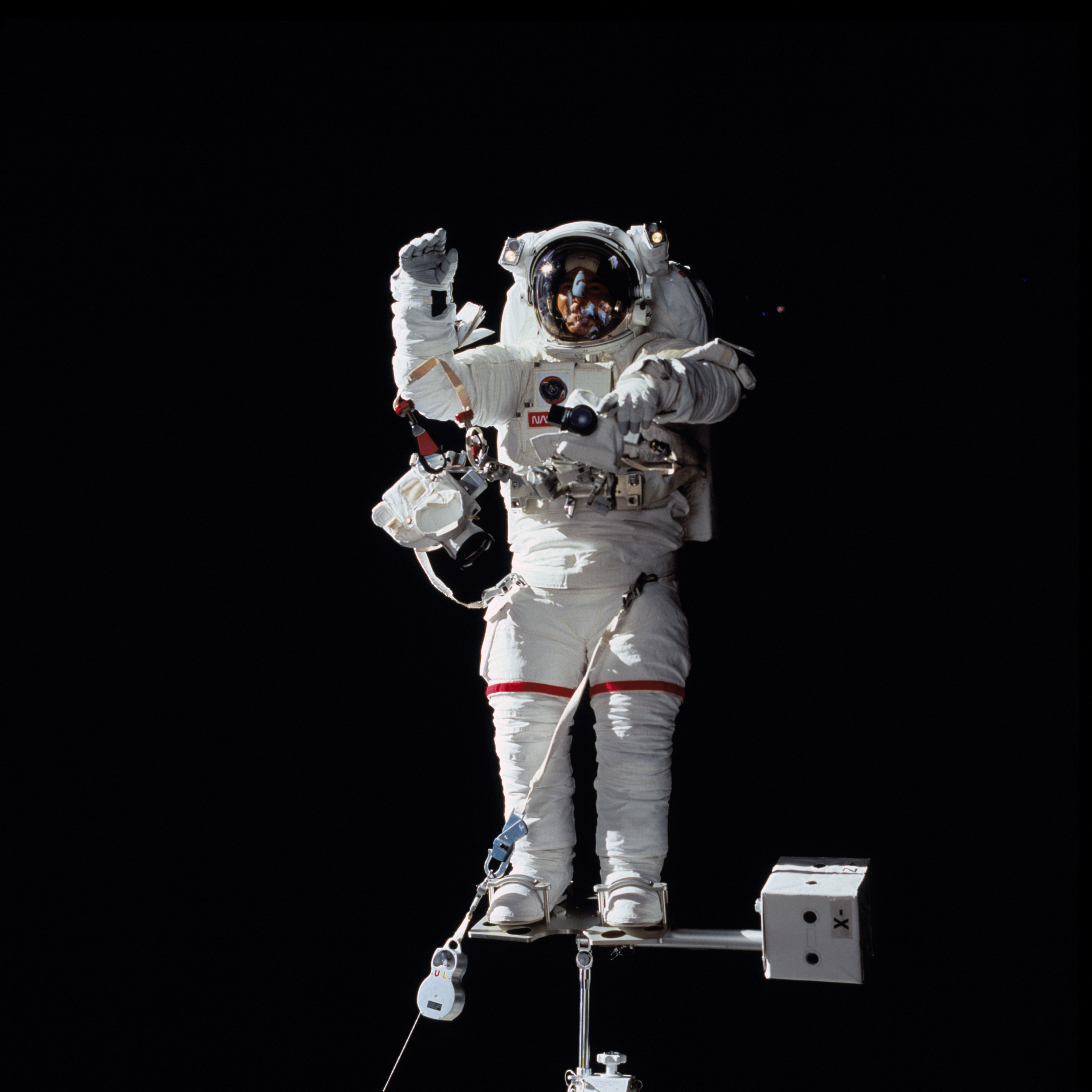 STS-69 payload commander James S. Voss during the September 16, 1995, Extravehicular Activity (EVA) conducted in and around the cargo bay of Space Shuttle Endeavour. NASA photo STS069-714-063 in public domain.